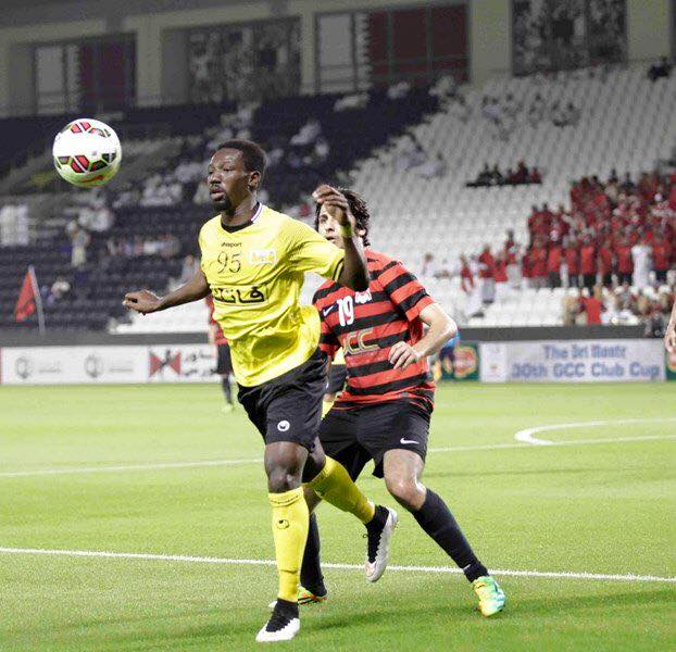 Abdoulaye Koffi in a match against Al Rayyan Club; Ahmed bin Ali Stadium, Qatar